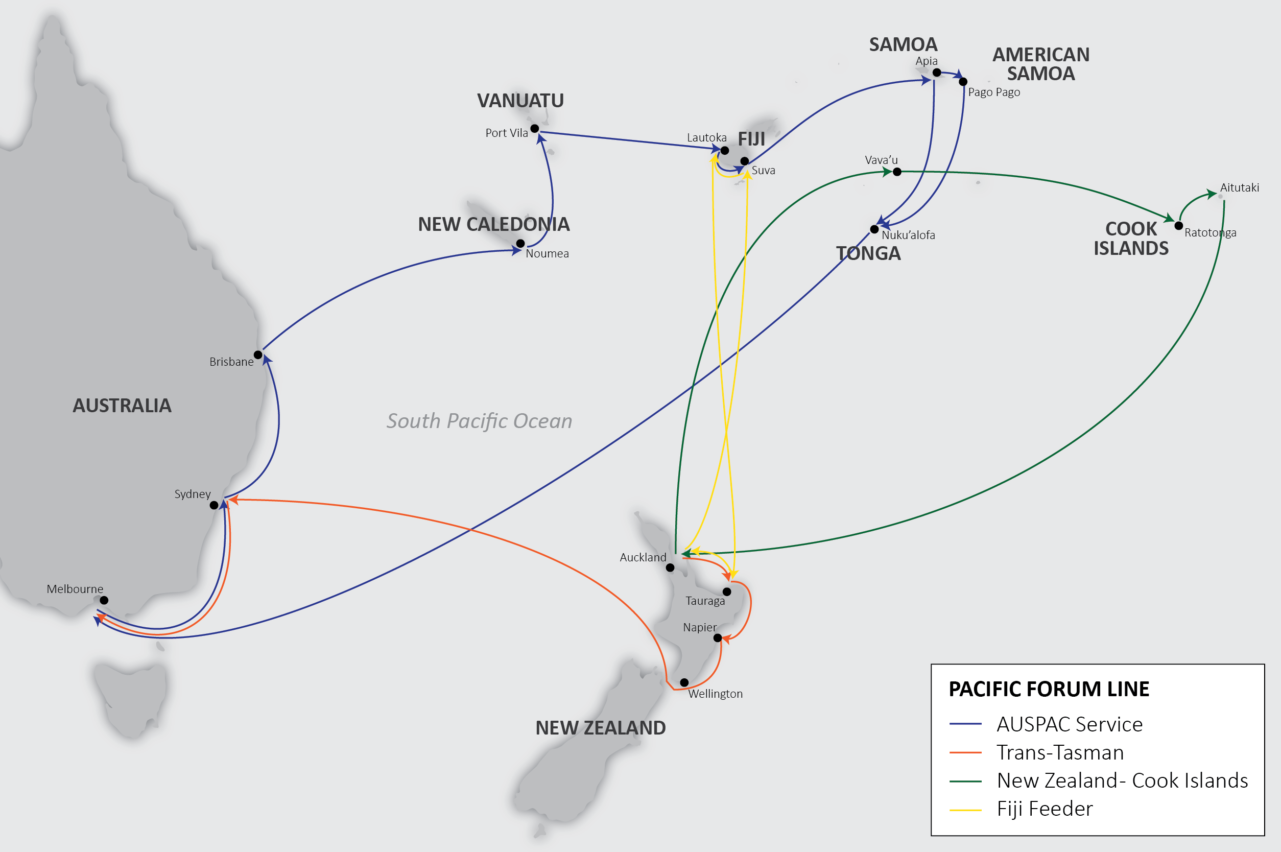 This is a map of the Pacific Forum Line out in the Pacific Ocean